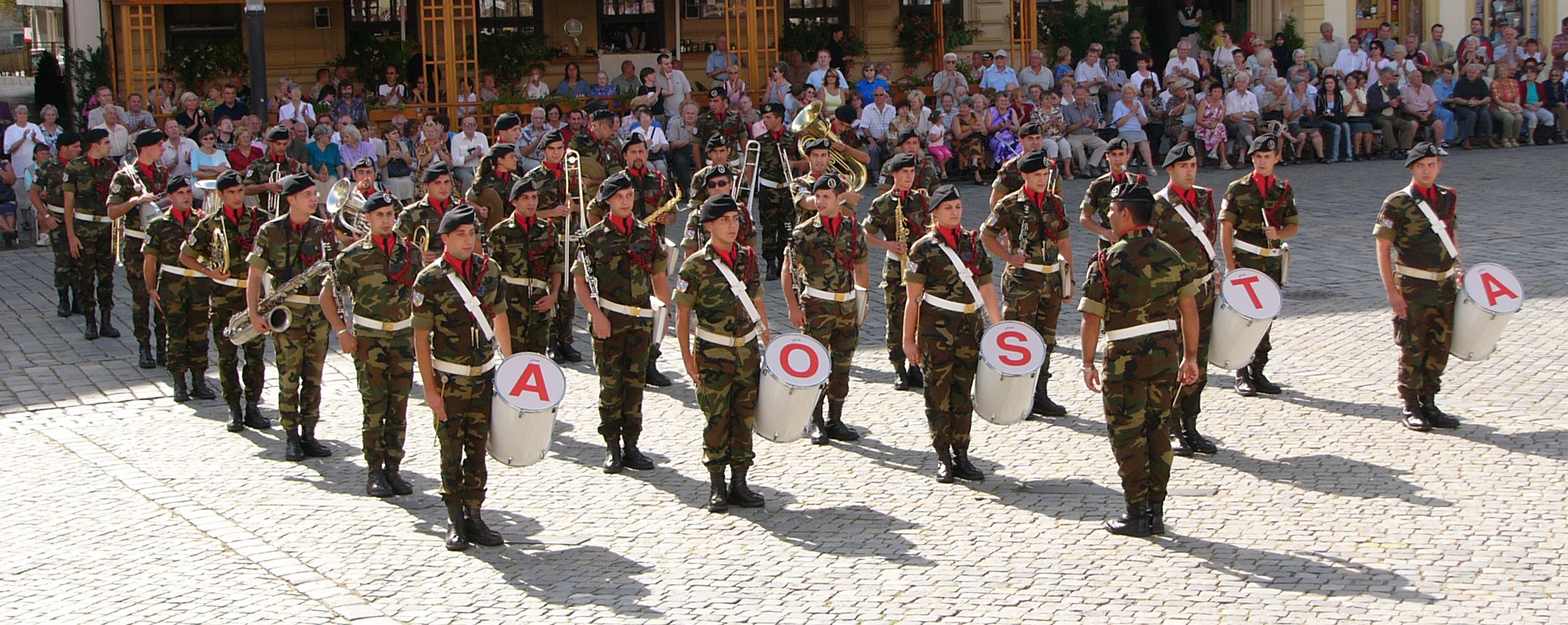 Italia military band Aosta brigade, Esercito Italiano.